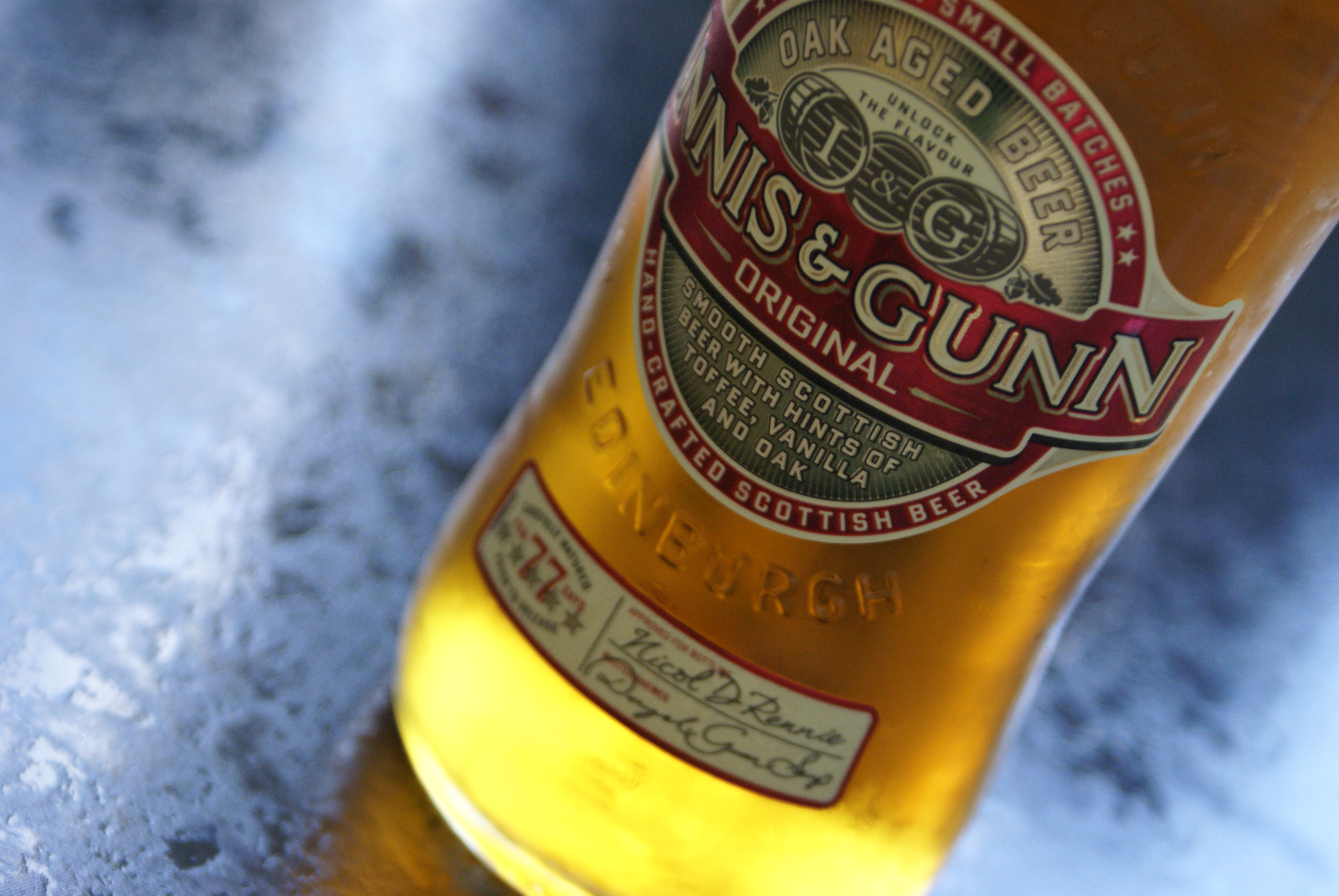 "This is our flagship beer, the one whose discovery led to the formation of the company back in 2003. Since then we've won a string of awards for Original, most recently a third consecutive Modern Monde Selection gold award. Like the world's great wine and whisky makers we strive for depth of flavour, complexity and mellowness in every beer we produce. Innis & Gunn Original typifies this approach. Its lengthy 77-day maturation imparts flavours of toffee, vanilla and oak that perfectly complement the beer's backbone of luscious malt and fruity hop notes. The oak helps to give Innis & Gunn Original its appealing colour and also mellow the alcohol character, so although the beer is 6.6%, it's very smooth and easy to drink."